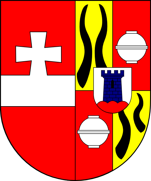 Coat of arms (shield only) of Sigismund Anton von Hohenwart, bishop of Triest, Italy (1791 - 1794), bishop of St. Pölten, Austria (1794 - 1803), archbishop of Vienna (1803 - 1820).